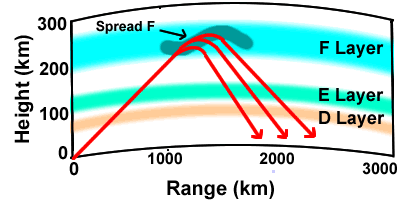 Ray diagram of Spread F event. The uneven distribution of free electrons in the F layer causes HF to spread out or have other unusual propagation characteristics.